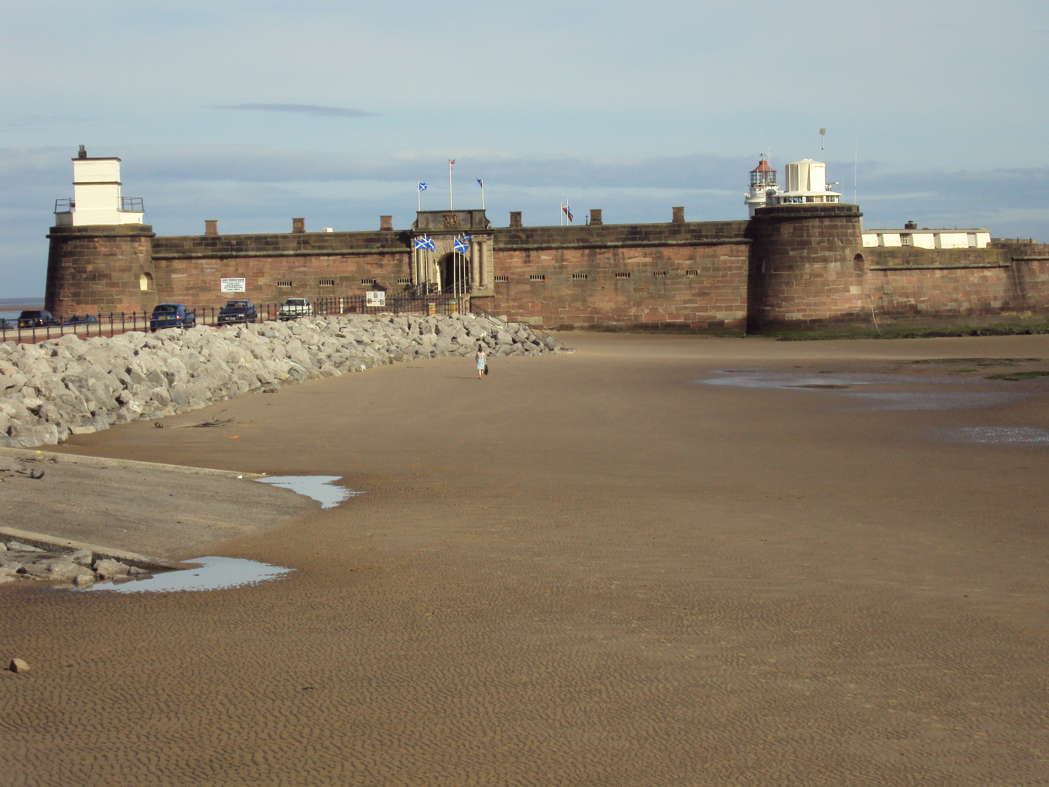 Coastal defence battery of the Napoleonic era at New Brighton, Wirral England. Built to defend the Port of Liverpool. At the time of the photo, it hosts a museum.